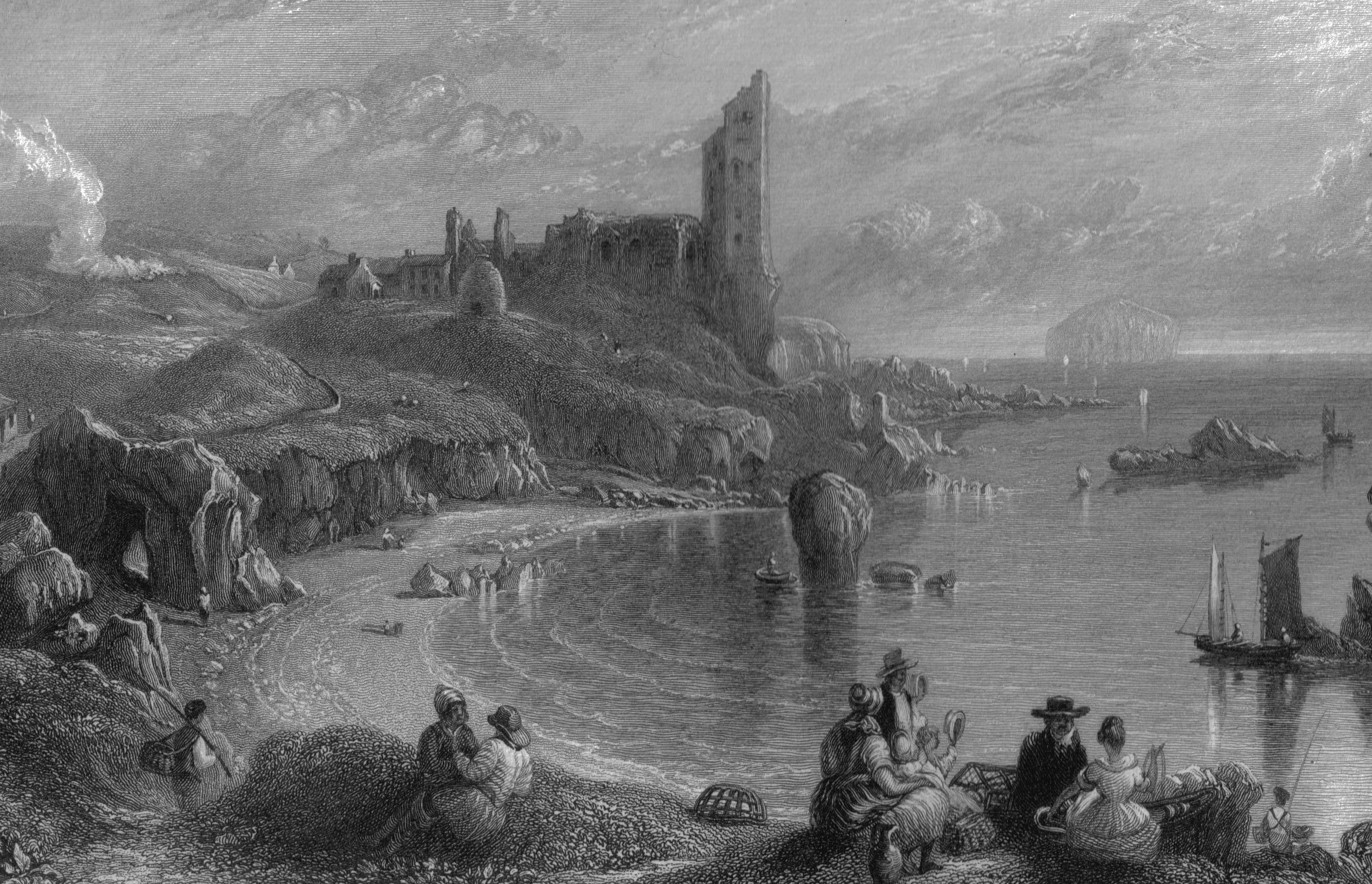 Dunure Castle from Culzean area in 1840. South Ayrshire, Scotland.